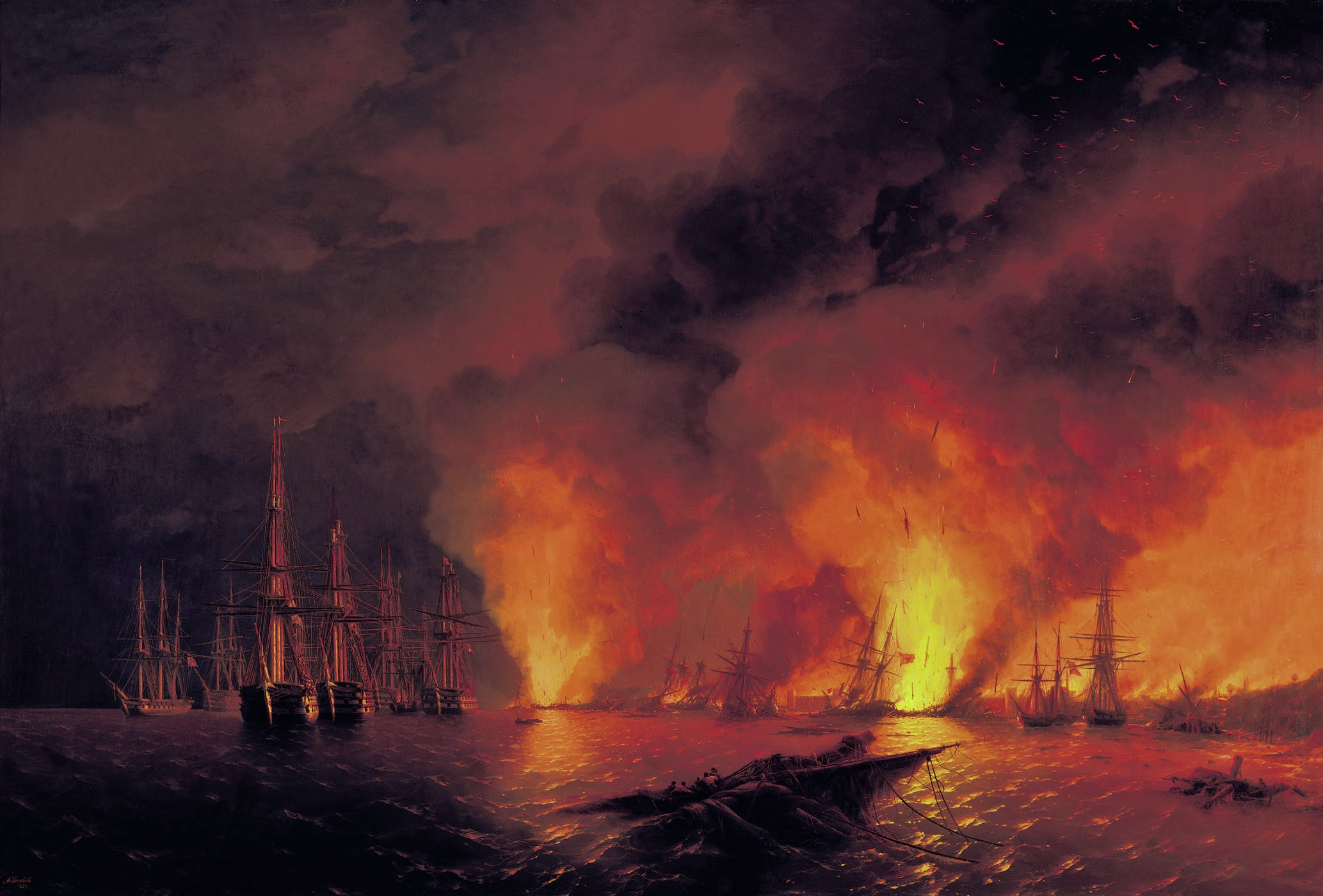 I. K. Aivazovsky’s The Battle of Sinop on 18 November 1853 (Night after Battle). 1853. Oil on canvas. 220 × 331 cm. Central Naval Museum, St. Petersburg, Russia. An Episode from the Crimean War of 1853-1856. The Sinop battle took place on 18 November 1853 in the old style (30 November) between the Russian and Turkish squadrons in the Turkish port of Sinop, near the southern coast of the Black Sea. It ended with the destruction of 15 of the 16 Turkish ships and a devastating fire in the city. The Russian fleet lost no ships. This was the last major battle in the history of sail fleets, and the first battle, in which the Paixhans explosive shell guns were used.